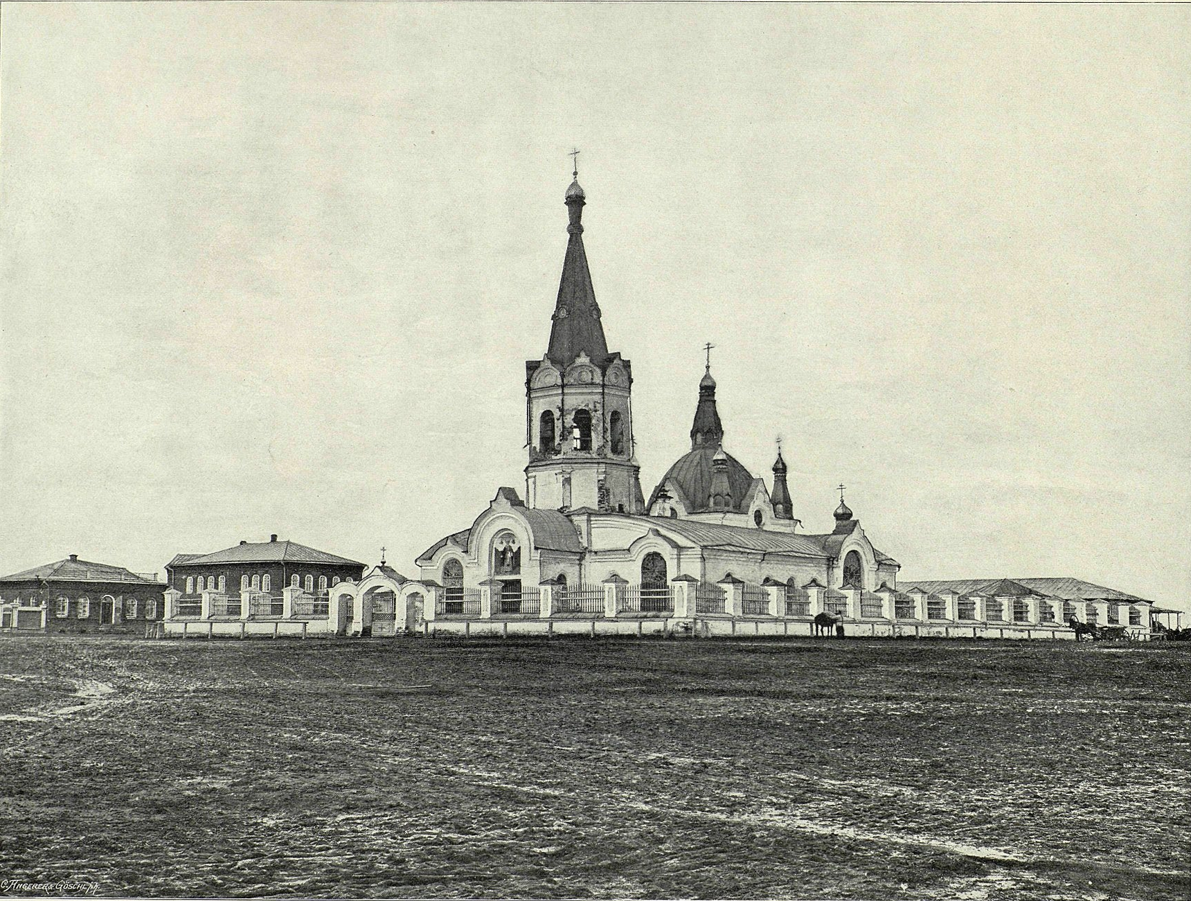 «Great Path - Views of Siberia and Great Siberian Railway» book, 1899